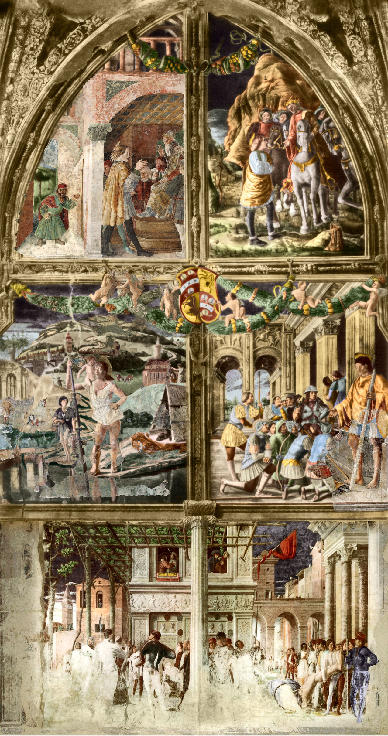 right side